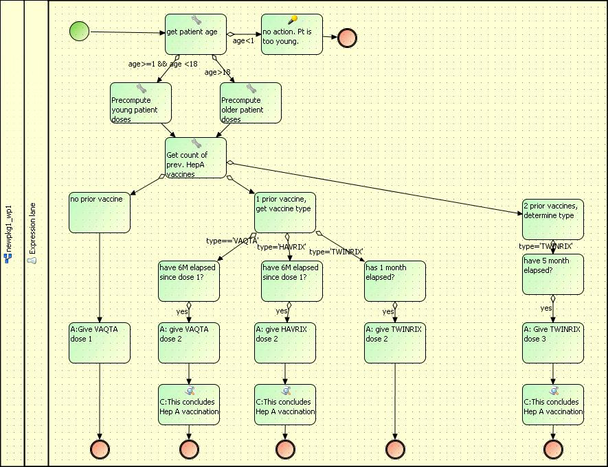 HealthFlow example flowchart hepatitis A immunization 005